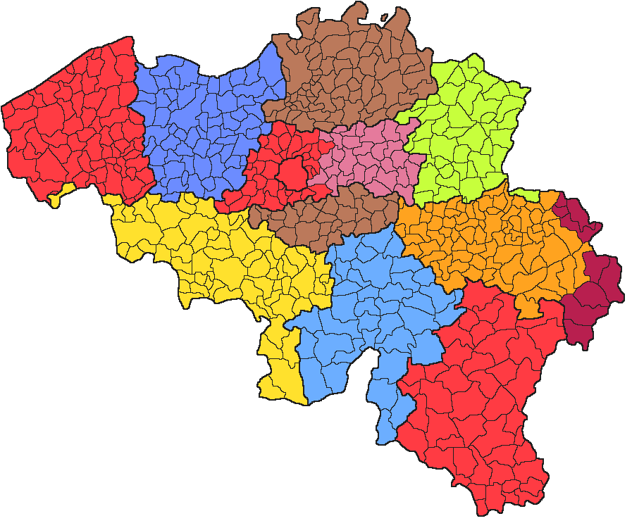 Map of Belgium with the 12 judicial arrondissements, after the 2012 reform: the ten provinces, Brussels and the German-speaking community.